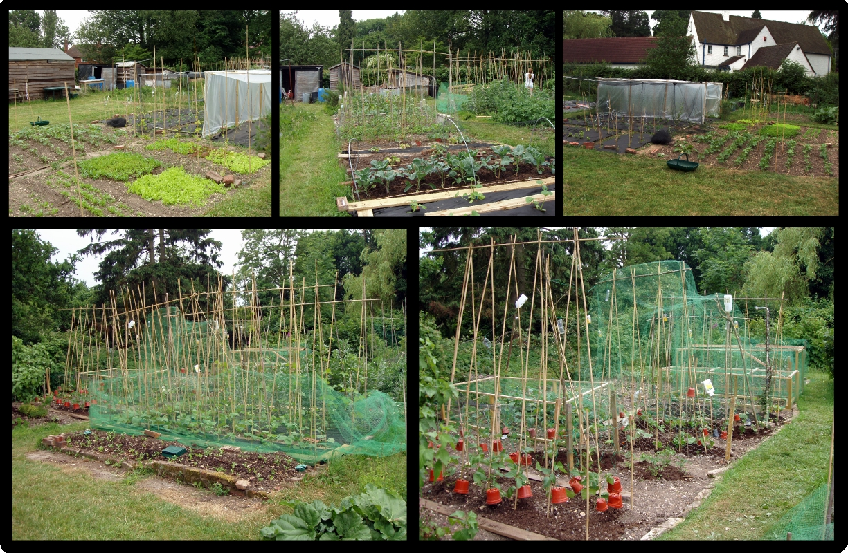 Allotments in the rural village of Jordans. Self taken photos. Not available on the net. I took these 5 photos and combined them in inkscape.